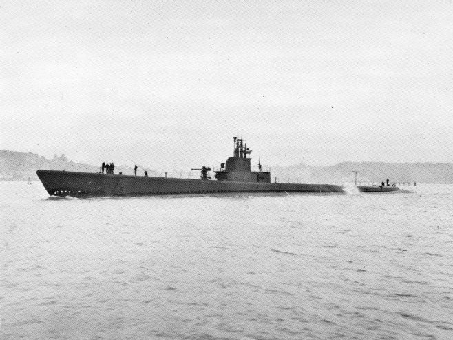 USS_Jack; Jack (SS-259) underway off Mare Island California, 17 December, 1943. US Navy photo contributed by John Hummel, USN (Retired).